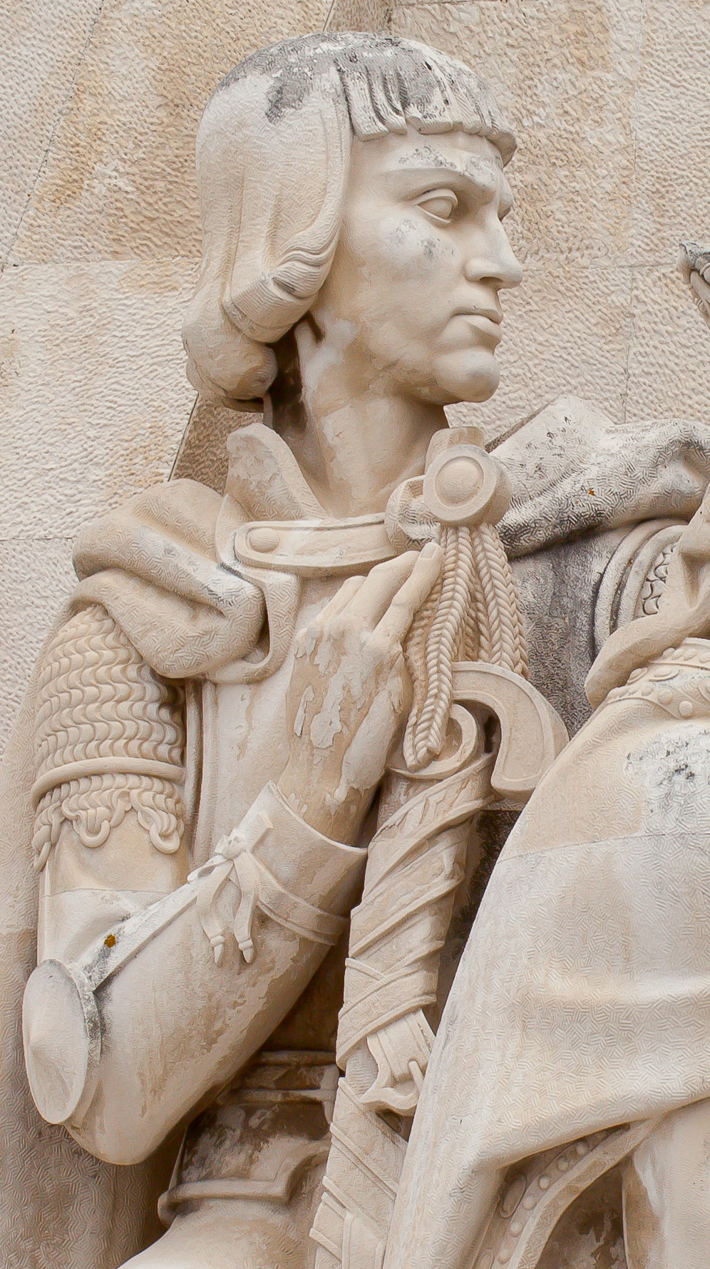 Effigy of Peter, Duke of Coimbra (1392-1449), son of King John I of Portugal and Queen Philippa of Lancaster and Regent of Portugal between 1439 and 1448, in the Padrão dos Descobrimentos (Monument to the Discoveries), in Lisbon, Portugal.